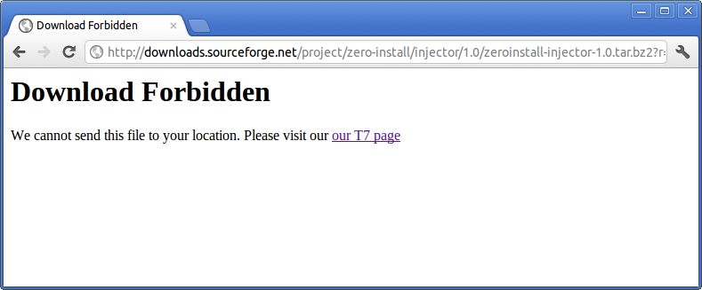 PNG version of File: - Download Forbidden.jpg, also smaller (in image size and file size), and using Chromium under Kubuntu instead of Firefox under Windows, thus using non-copyrighted (entirely free) fonts. Actually a recreation the the above mentioned image file, not a real case of blocking.